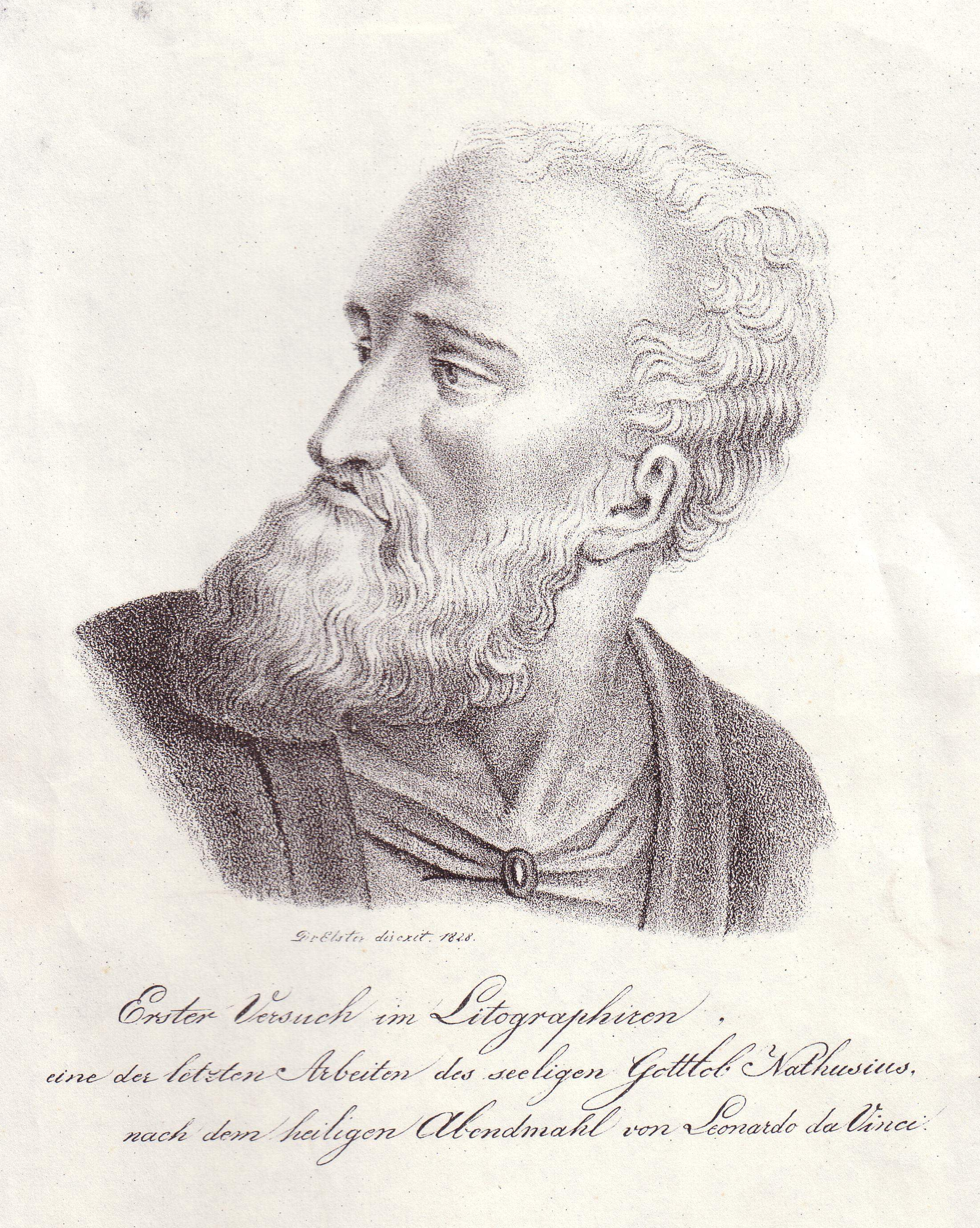 first lithographie by Eyard in Hundisburg